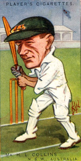 Caricature of former Australian cricket captain Herbie Collins, mid 1920s. The image is pre-1955 and therefore in the public domain. This image is of Australian origin and is now in the public domain because its term of copyright has expired. According to the Australian Copyright Council (ACC), ACC Information Sheet G023v17 (Duration of copyright) (August 2014).3 Type of materialCopyright has expired if … A Photographs or other works published anonymously, under a pseudonym or the creator is unknown: taken or published prior to 1 January 1955BPhotographs (except A): taken prior to 1 January 1955CArtistic works (except A & B): the creator died before 1 January 1955DPublished editions1 (except A & B): first published more than 25 years agoECommonwealth, State or Territory owned2 photographs and engravings: taken or published more than 50 years ago 1 means the typographical arrangement and layout of a published work. eg. newsprint. 2 owned means where a government is the copyright owner as well as would have owned copyright but reached some other agreement with the creator. 3 Copyright Amendment (Disability Access and Other Measures) Bill 2017 (Australian Government) When using this template, please provide information of where the image was first published and who created it.